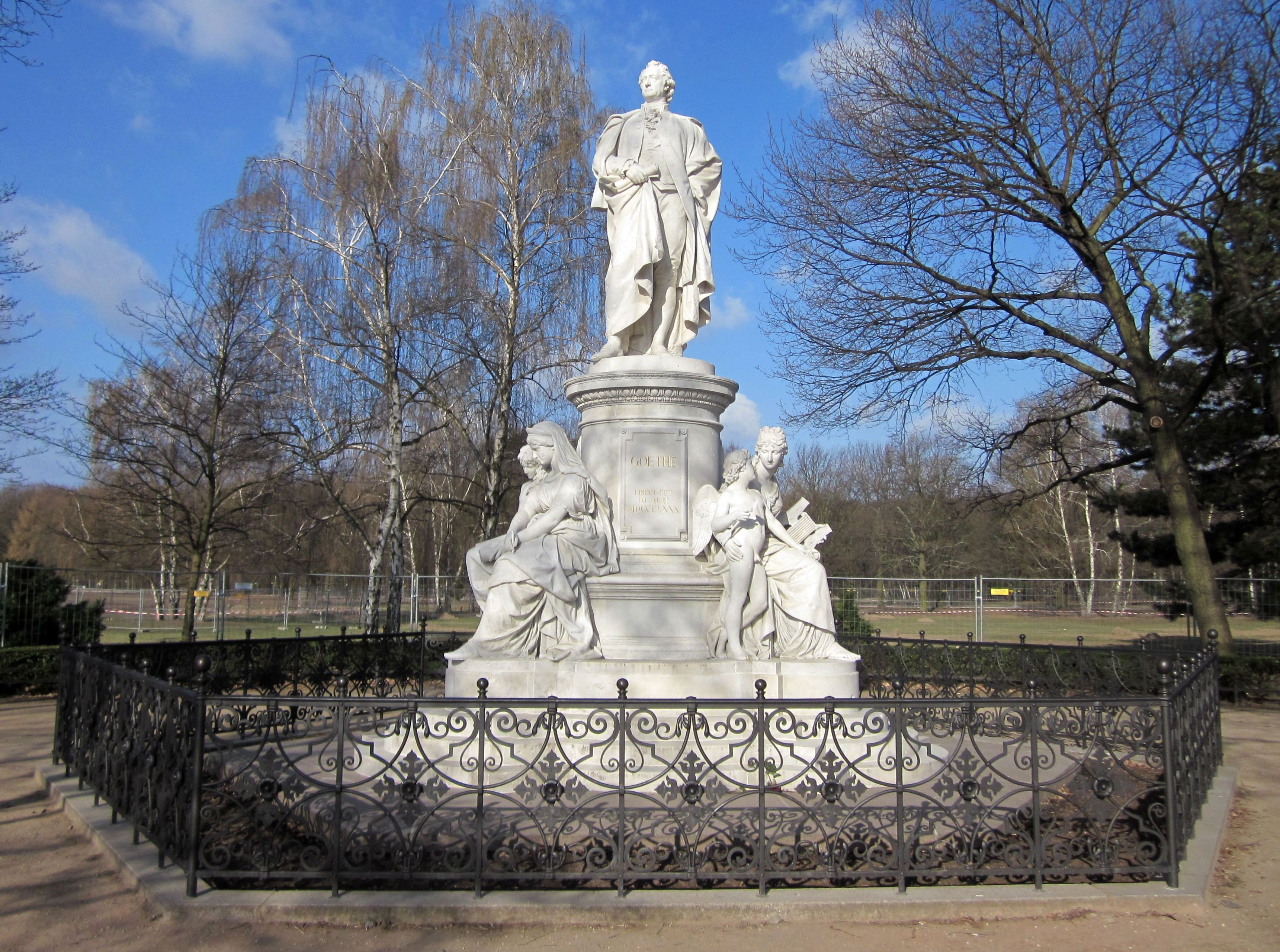 The Goethe memorial at Großer Tiergarten park near Ebertstraße in Berlin-Tiergarten. It was created from 1876 to 1880 by Fritz Schaper.